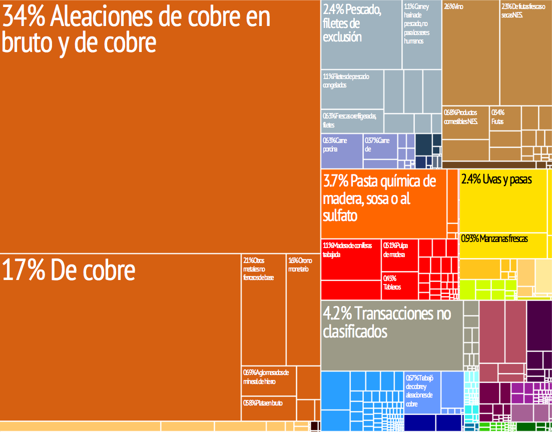 Representación gráfica de los productos de exportación del país en 28 categorías codificadas por color. Cada recuadro de color representa un producto y su tamaño es proporcional a la participación que ese producto representa dentro del total de las exportaciones del país.